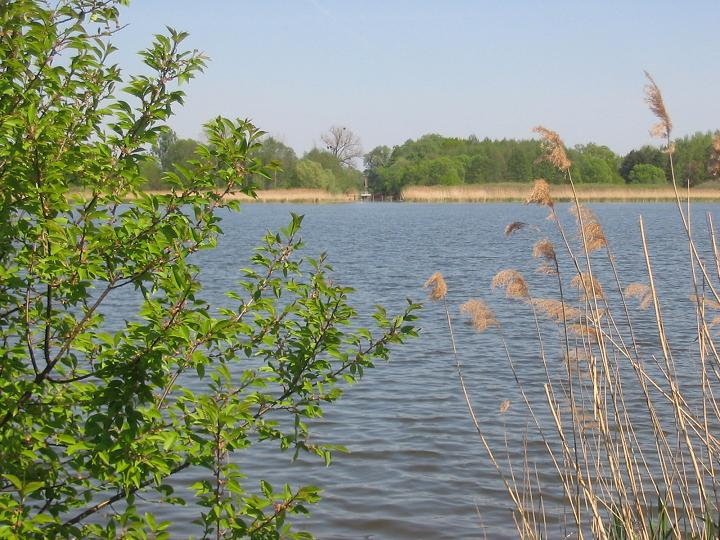 The Grössinsee is a protected lake with 0,94 km² in the nature park Nuthe-Nieplitz. He is situated nearby the village Blankensee, part of the town Trebbin in the district Teltow-Fläming, state Brandenburg, Germany.